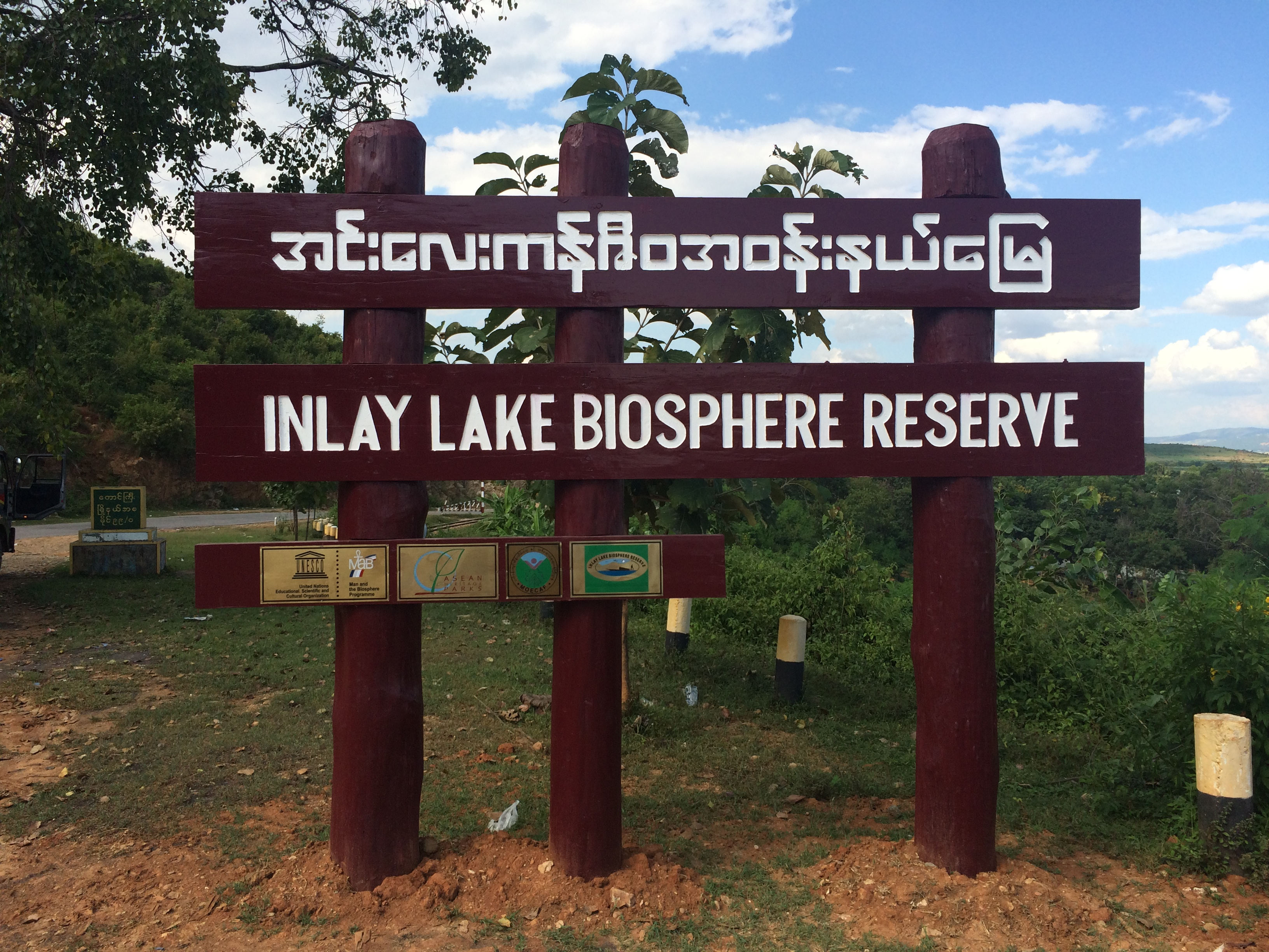 Inlay Lake Biosphere Reserveမြန်မာဘာသာ: အင်းလေးကန် ဇီဝအဝန်းနယ်မြေ